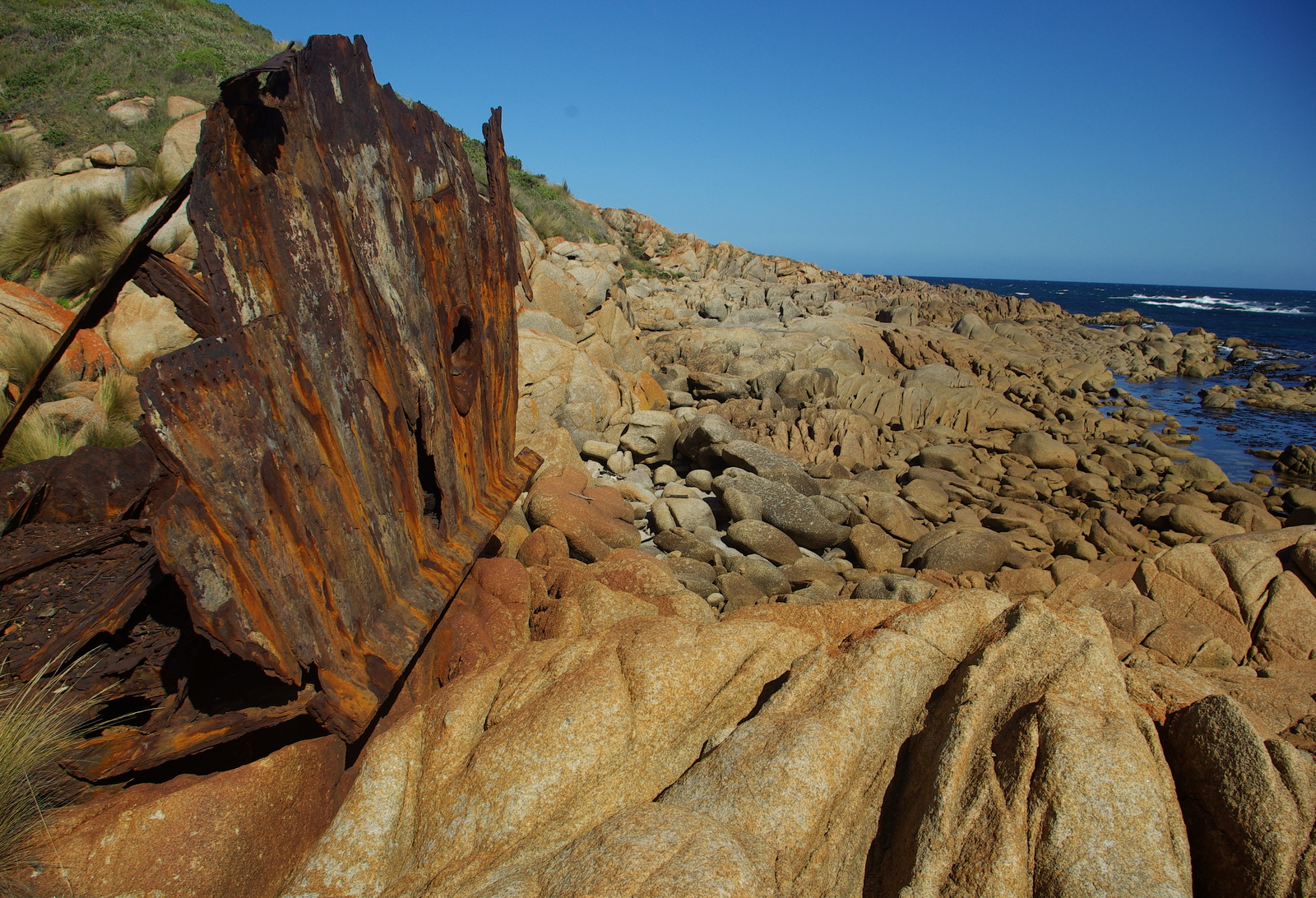 The wrecked steamer SS Saros